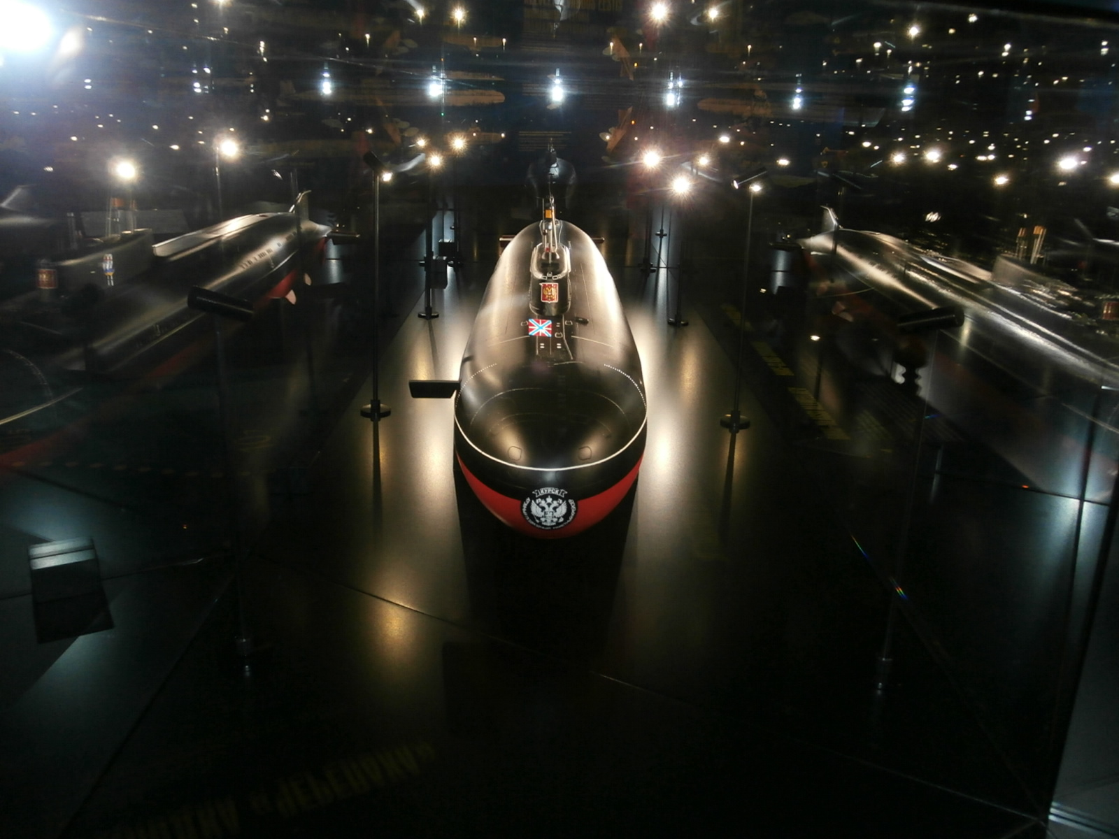 Model of K-141 Kursk in Estonian Maritime Museum Lennusadam Tallinn 20 May 2017